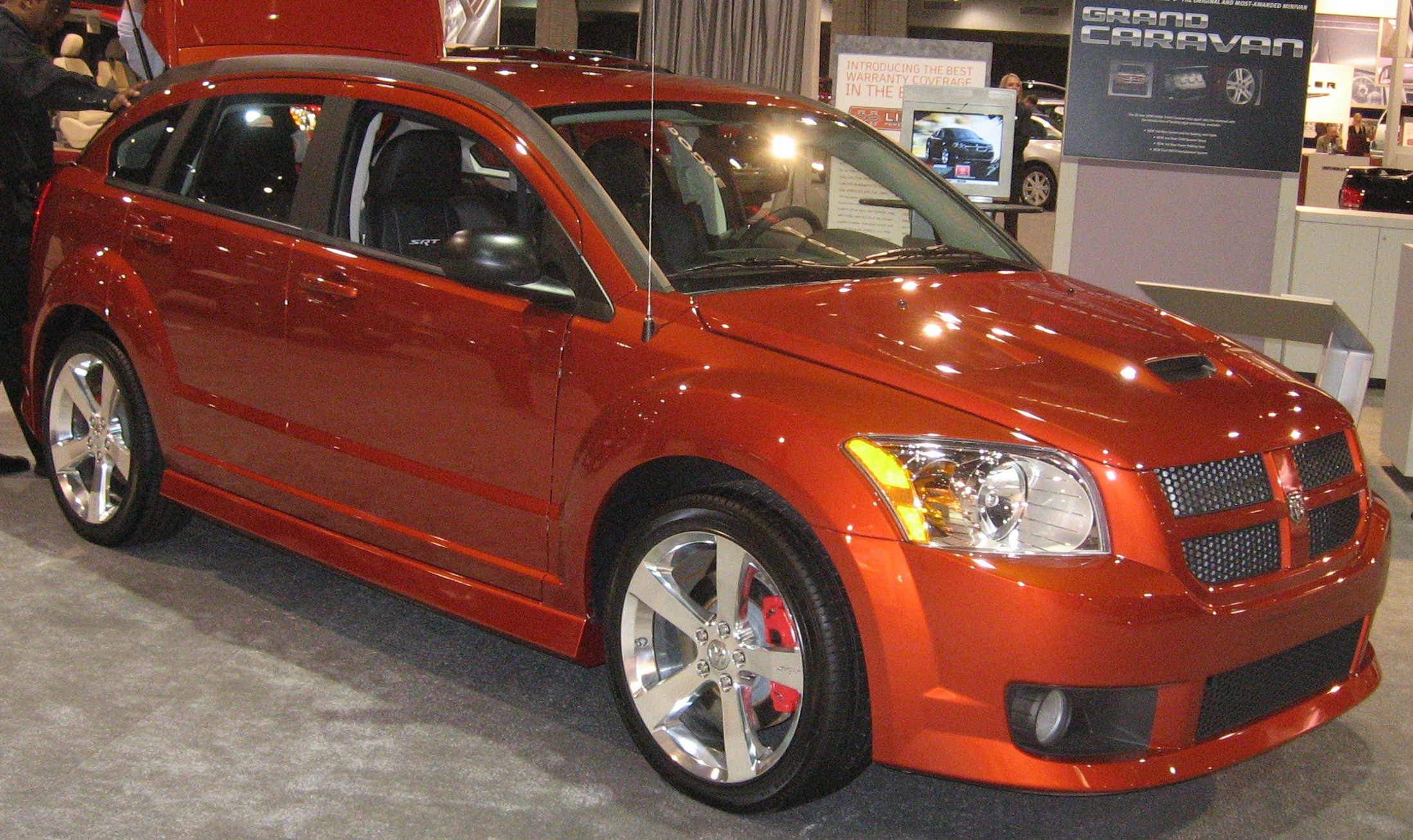 2008 Dodge Caliber photographed at the 2008 Washington DC Auto Show.